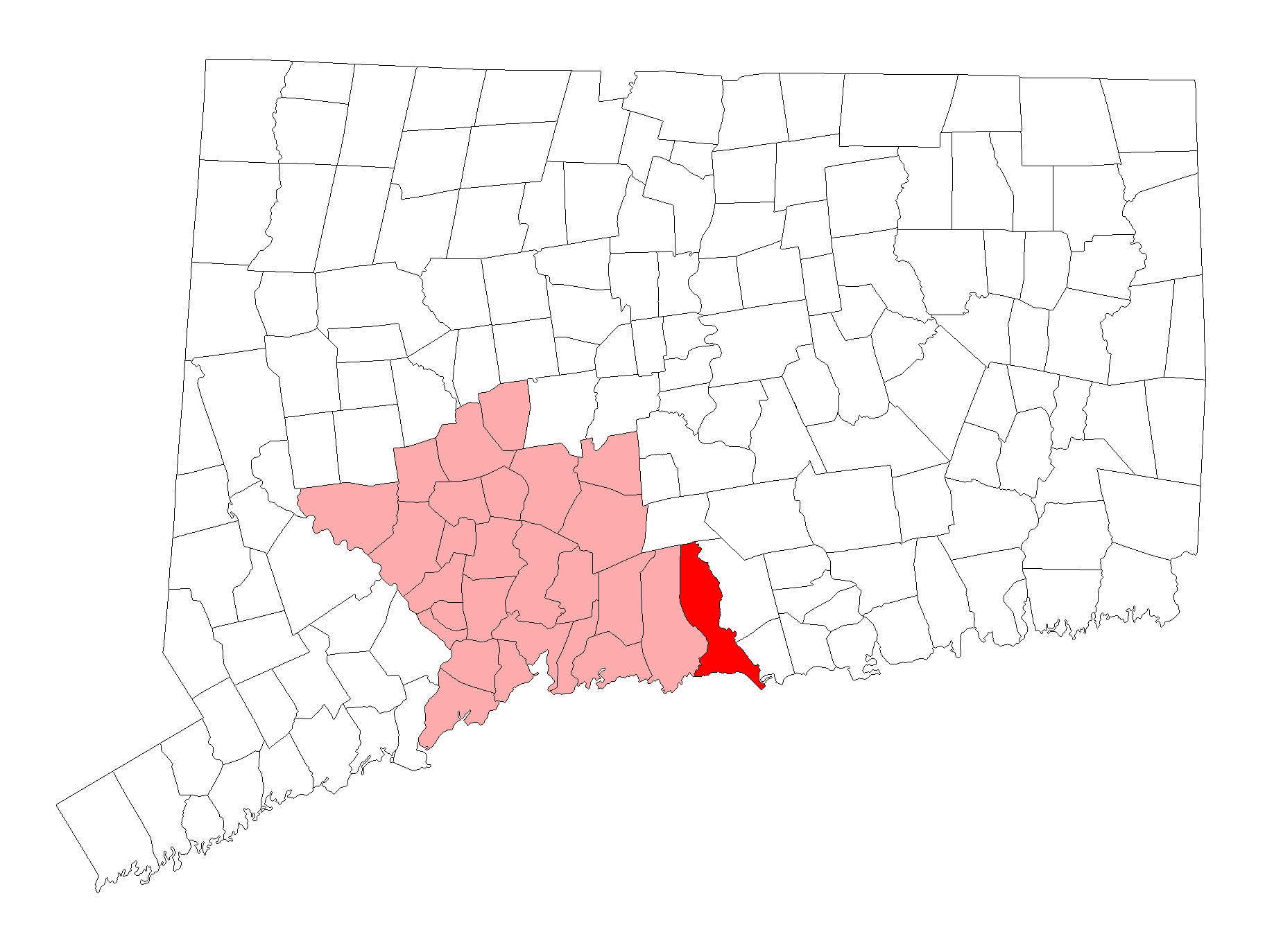 Madison, Connecticut on a Map of State